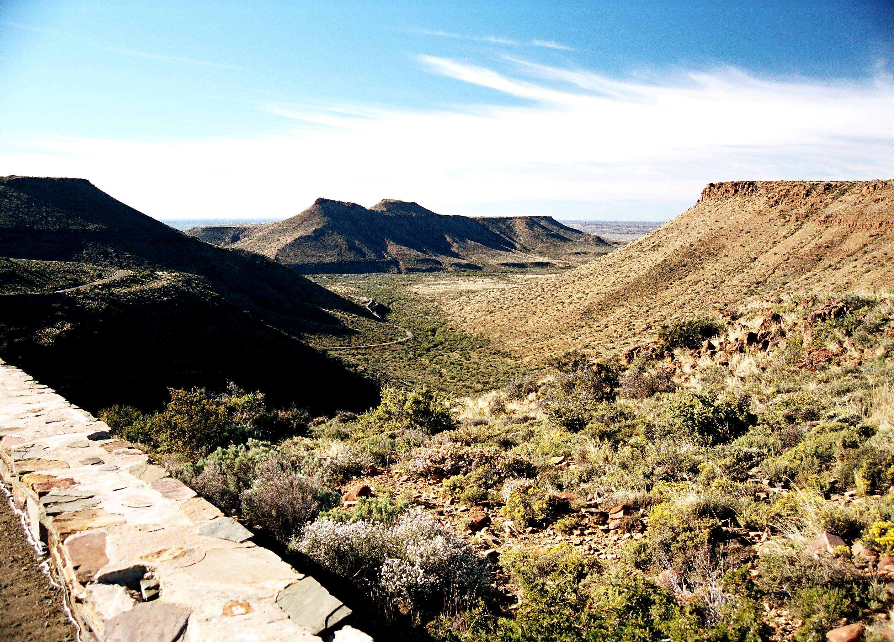 Landscape at Karoo National Park, South Africa. My own work, published here in GFDL.